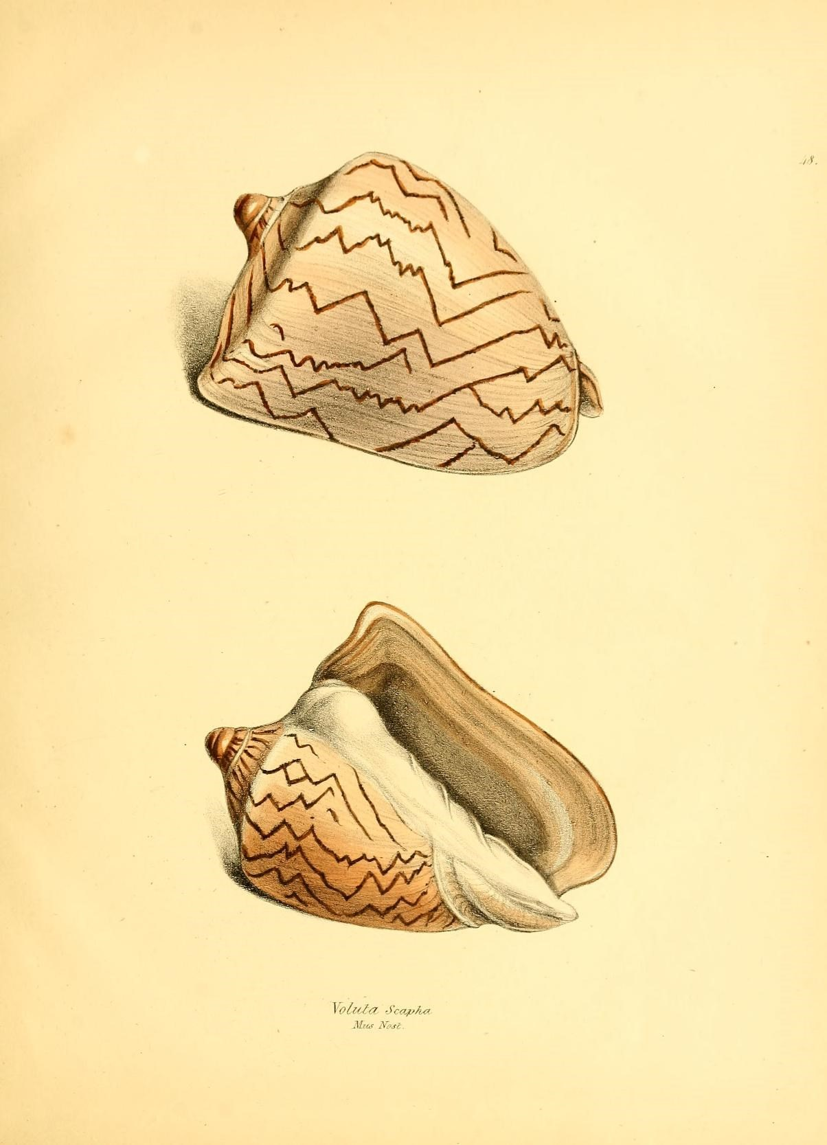 JS. YolMia Sca^kd. Muf Nose.